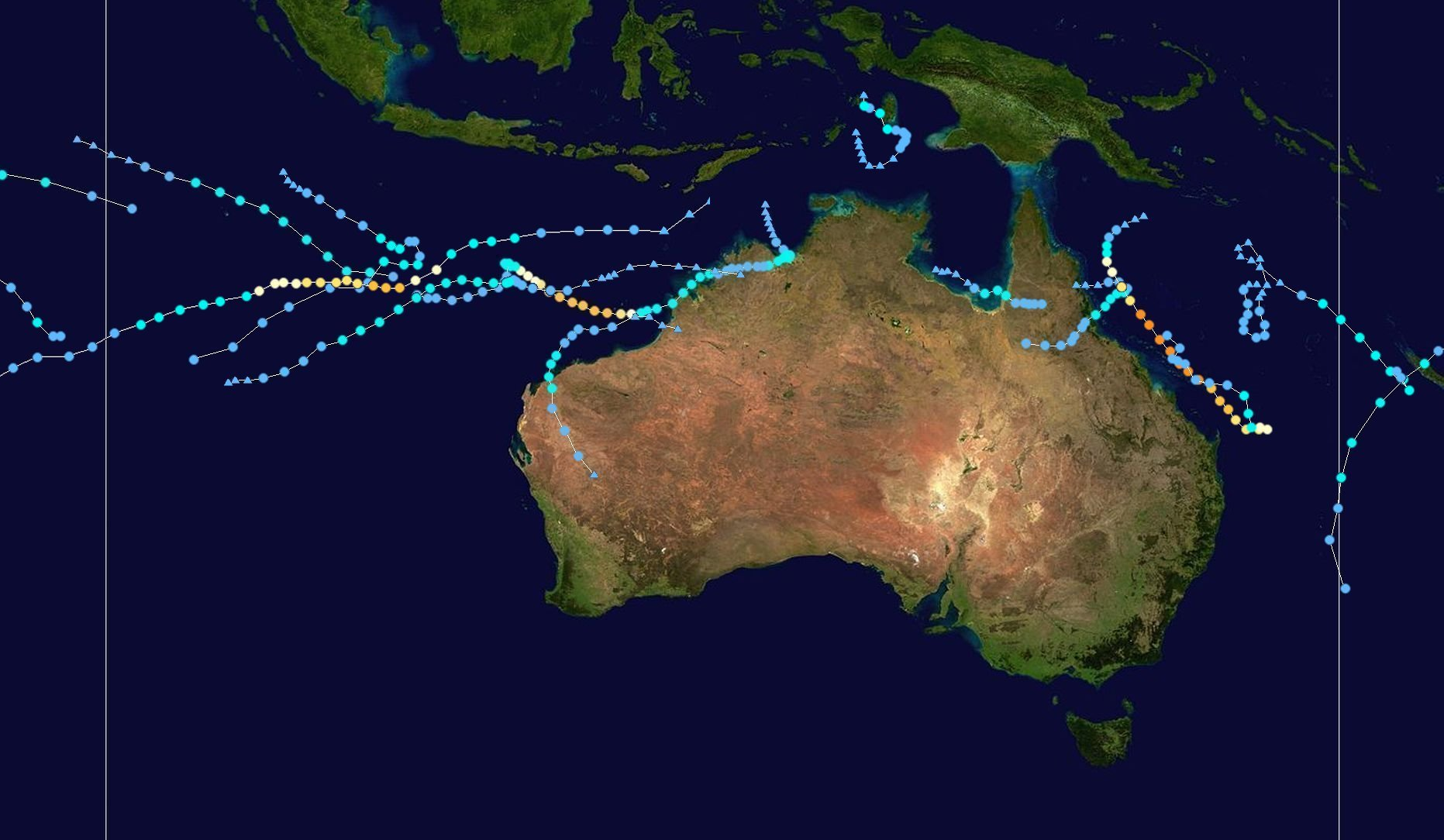 This map shows the tracks of all tropical cyclones in the 2008-09 Australian region cyclone season. The points show the location of each storm at 6-hour intervals. The colour represents the storm's maximum sustained wind speeds as classified in the Saffir-Simpson Hurricane Scale (see below), and the shape of the data points represent the type of the storm. Saffir–Simpson hurricane wind scale Tropical depression≤38 mph≤62 km/h Category 3111–129 mph178–208 km/h Tropical storm39–73 mph63–118 km/h Category 4130–156 mph209–251 km/h Category 174–95 mph119–153 km/h Category 5≥157 mph≥252 km/h Category 296–110 mph154–177 km/h Unknown Storm typeTropical cycloneSubtropical cycloneExtratropical cyclone / Remnant low / Tropical disturbance